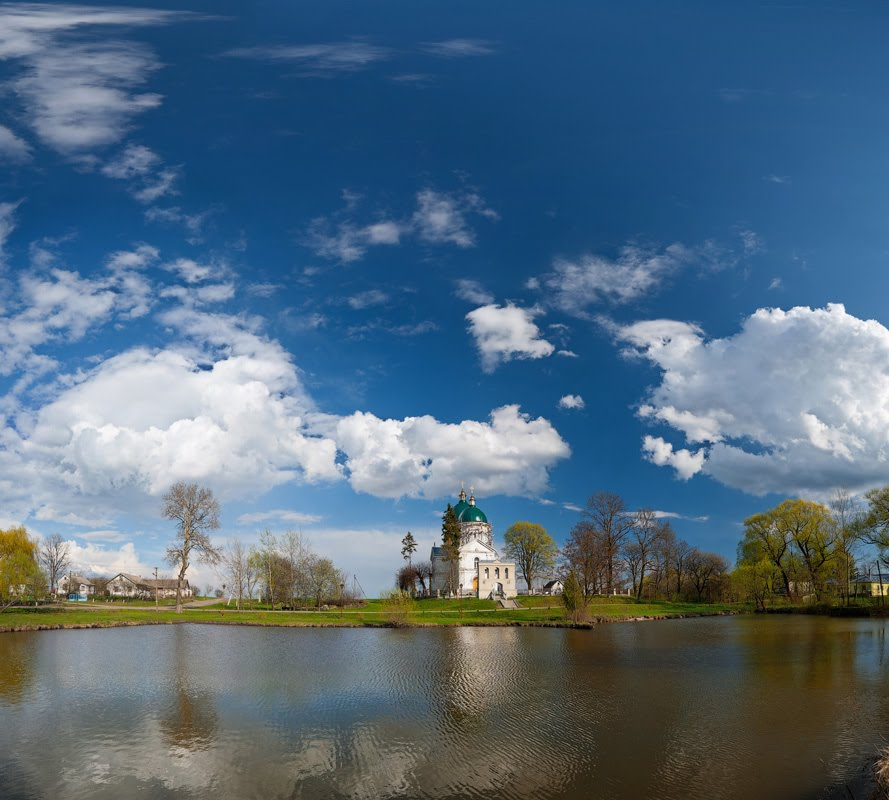 Cerkva Sv.Illi